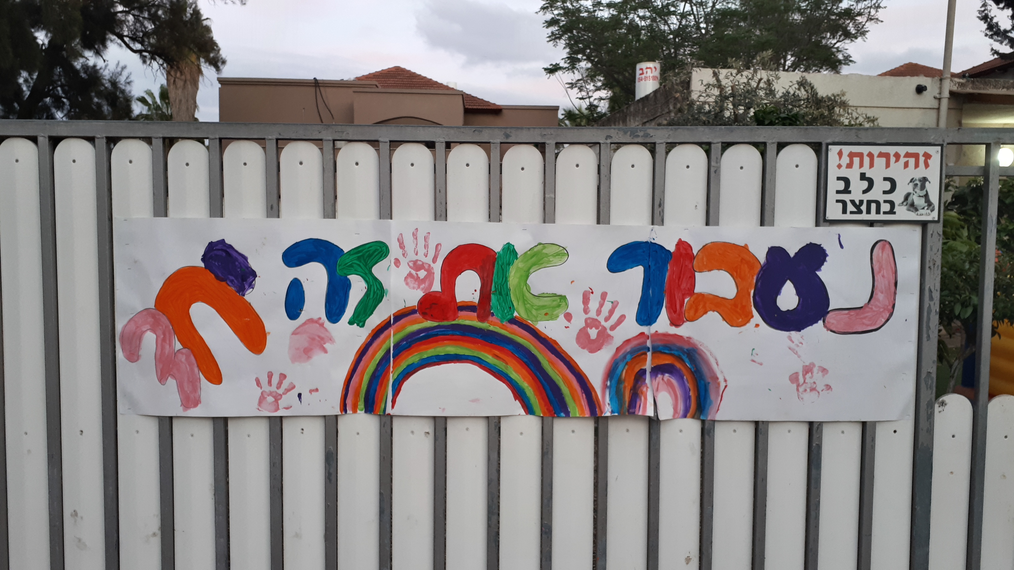 Homemade sign, Raanana, April 2020 - due to COVID-19 pandemic Sign says: we'll make it together